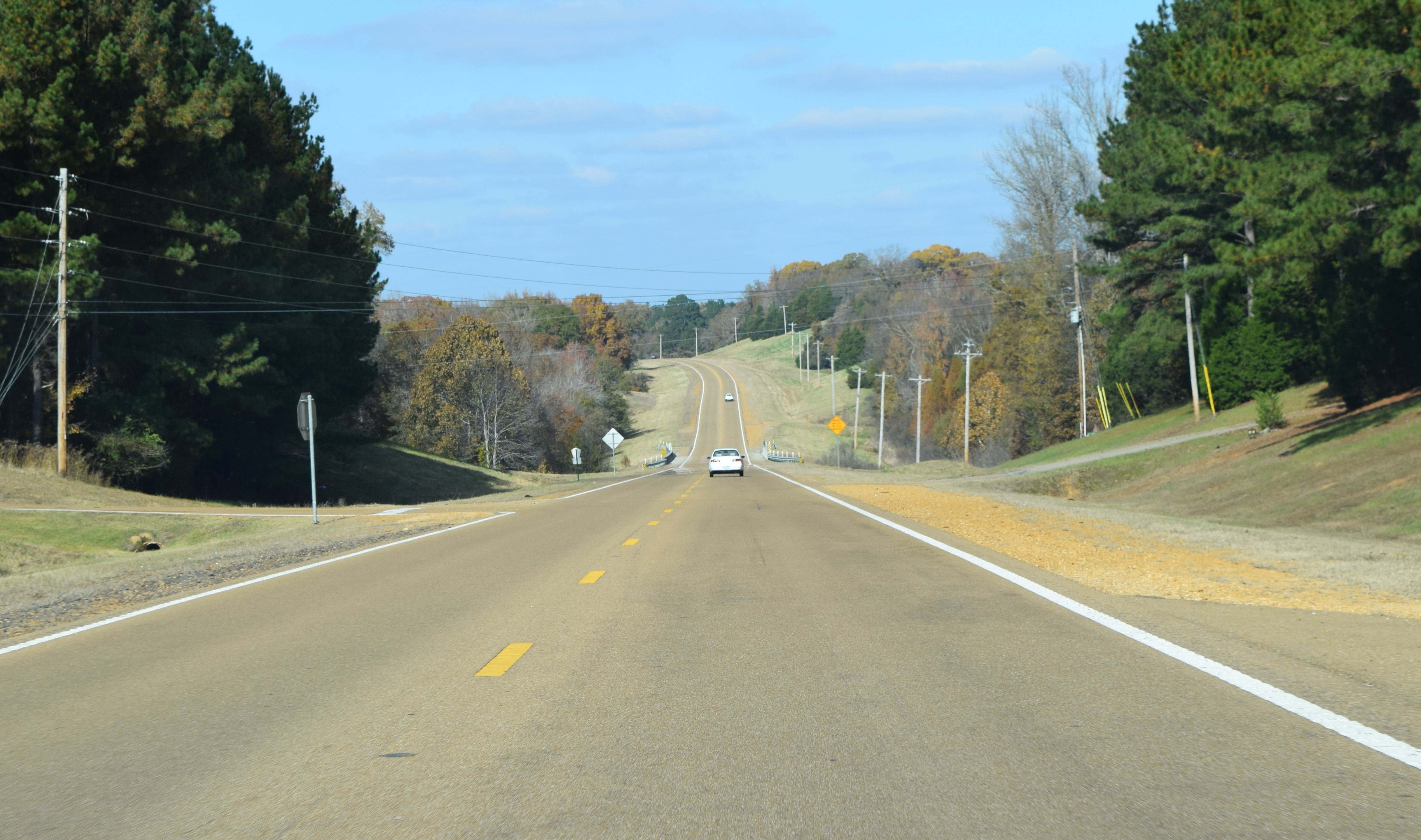 Looking north on Mississippi Highway 7 north of Oxford, Mississippi